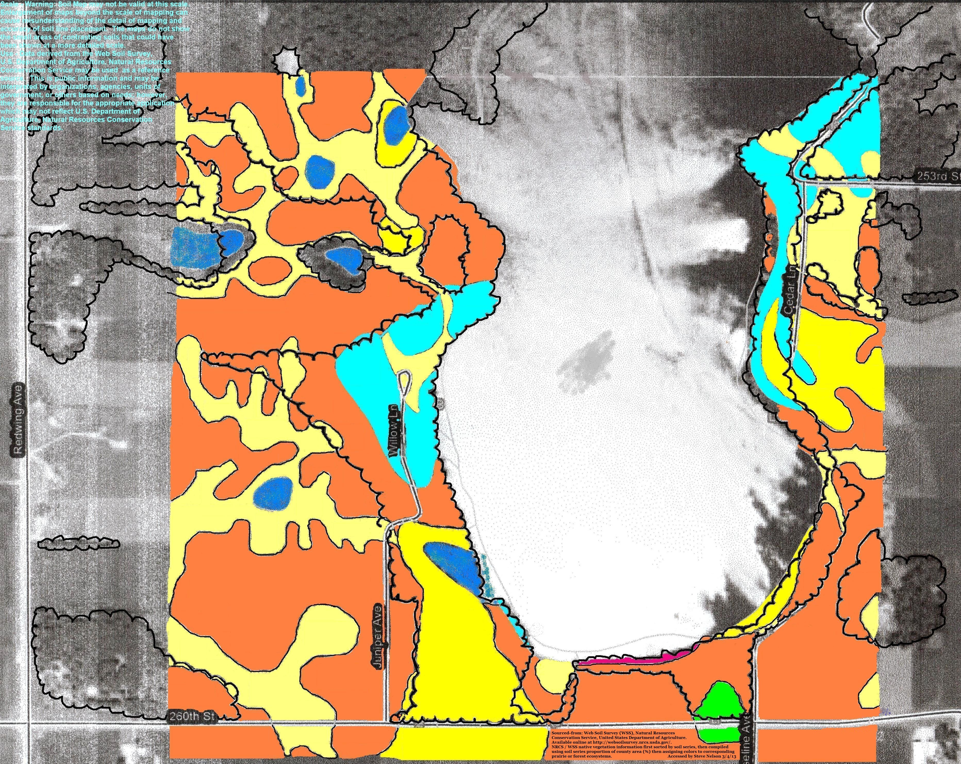 Map shows soils of Cedar Lake Farm Regional Park area in Scott County, Minnesota. Most of the area is prairie or savanna with smaller acreages of maple-basswood forest soils near the shores of Cedar Lake.